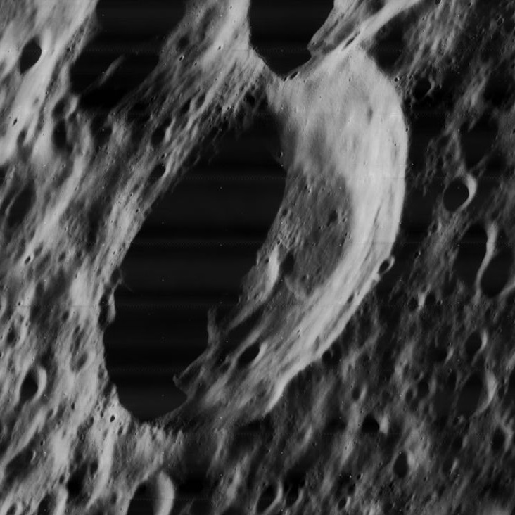 Oblique view of Tsinger, on the moon.